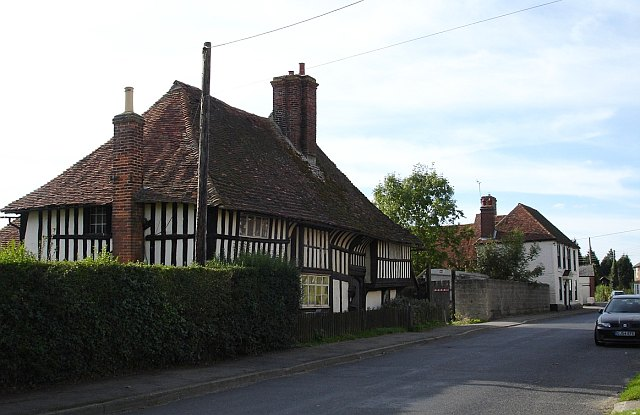 East Street, Harrietsham, Kent. The Old House, a Grade I listed building. Beyond it, Bell House see 66990.